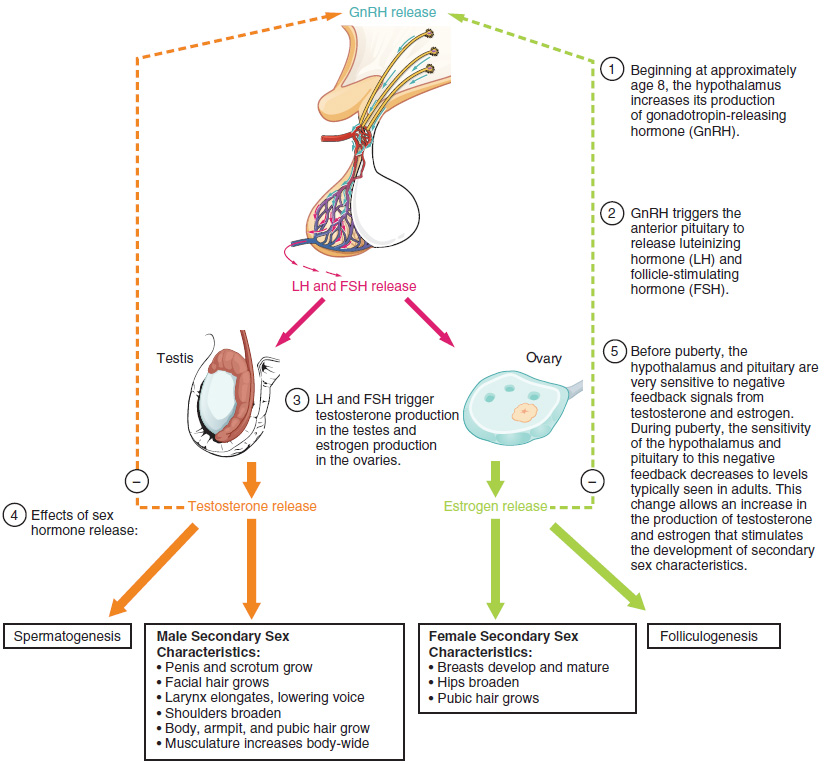 Illustration from Anatomy & Physiology, Connexions Web site. Jun 19, 2013.